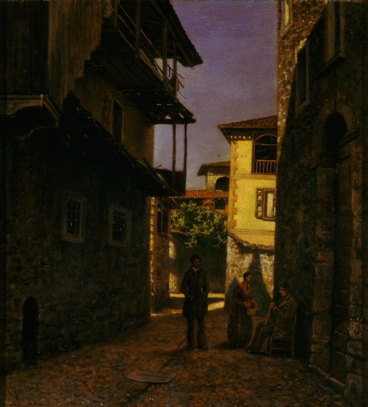 The painting was initially attributed to the renowned landscapist Giuseppe Bisi on the strength of a spurious signature, and subsequently attributed to Fulvia Bisi, his daughter and pupil. From 1842 on, this painter was distinguished for her regular participation in the annual Brera exhibitions with a vast repertoire of views of Milan and later Lombard and Ticino landscapes. The studies carried out when the Collection was first catalogued suggested a date for the canvas around 1865, because of stylistic similarities to A Road in the Woods (Milan, Brera Academy), whose handling consists of small rapid touches of colour in a naturalistic manner. However, it is not possible to confirm the authorship of the painting with certainty. Its mest pictorial quality, scant characterisation of the figures and tight rhythmic definition of the perspectival planes are not typical of the artist’s mature works. In fact, the use of broken brushstrokes and a refined rendering of light distinguish her artistic maturity that culminated with the execution of The Whirlwind (Milan, Galleria d’Arte Moderna), a masterly and intense interpretation of the Lombard landscape.